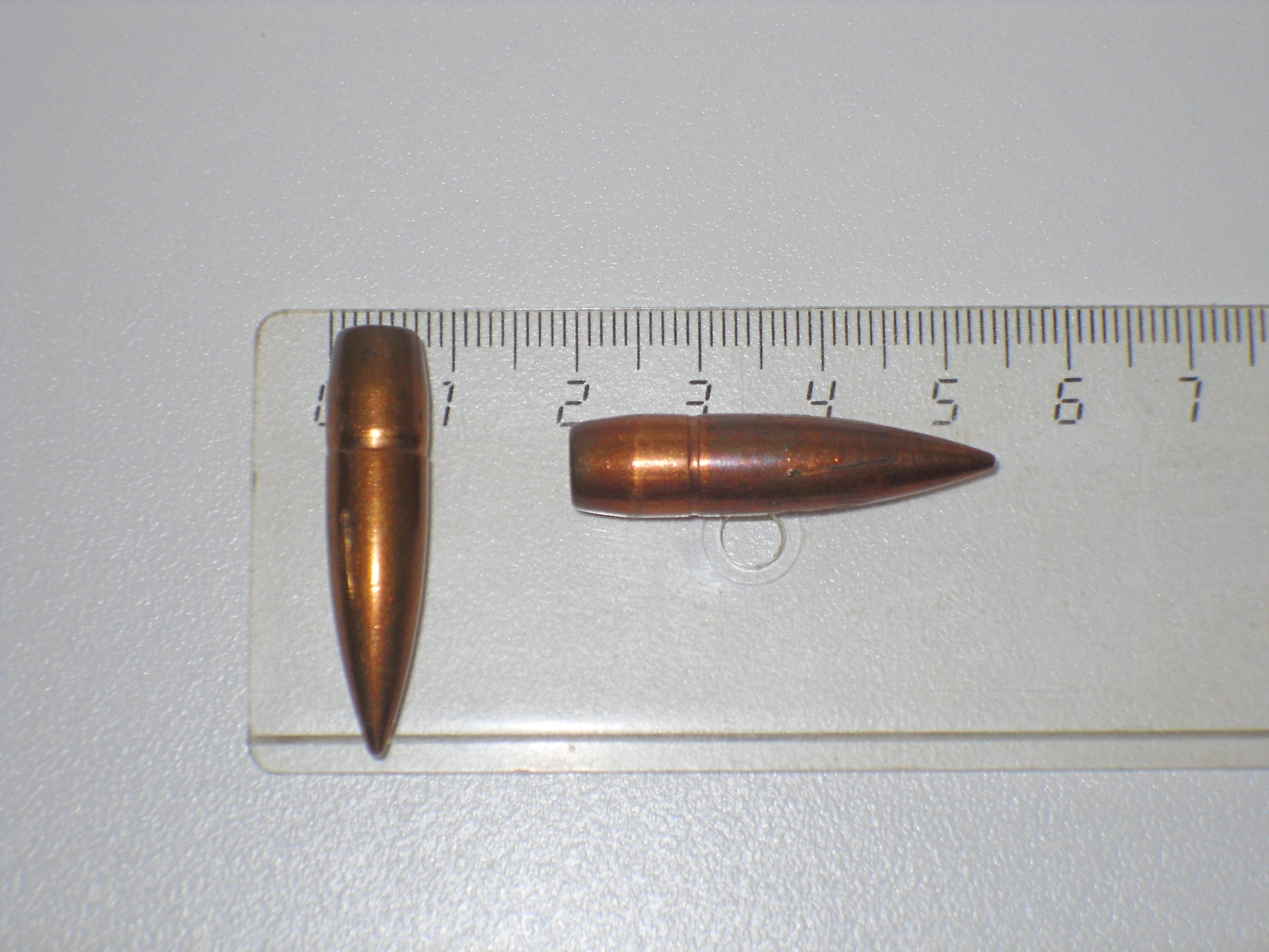 7,92mm Mauser Bullet, scaled